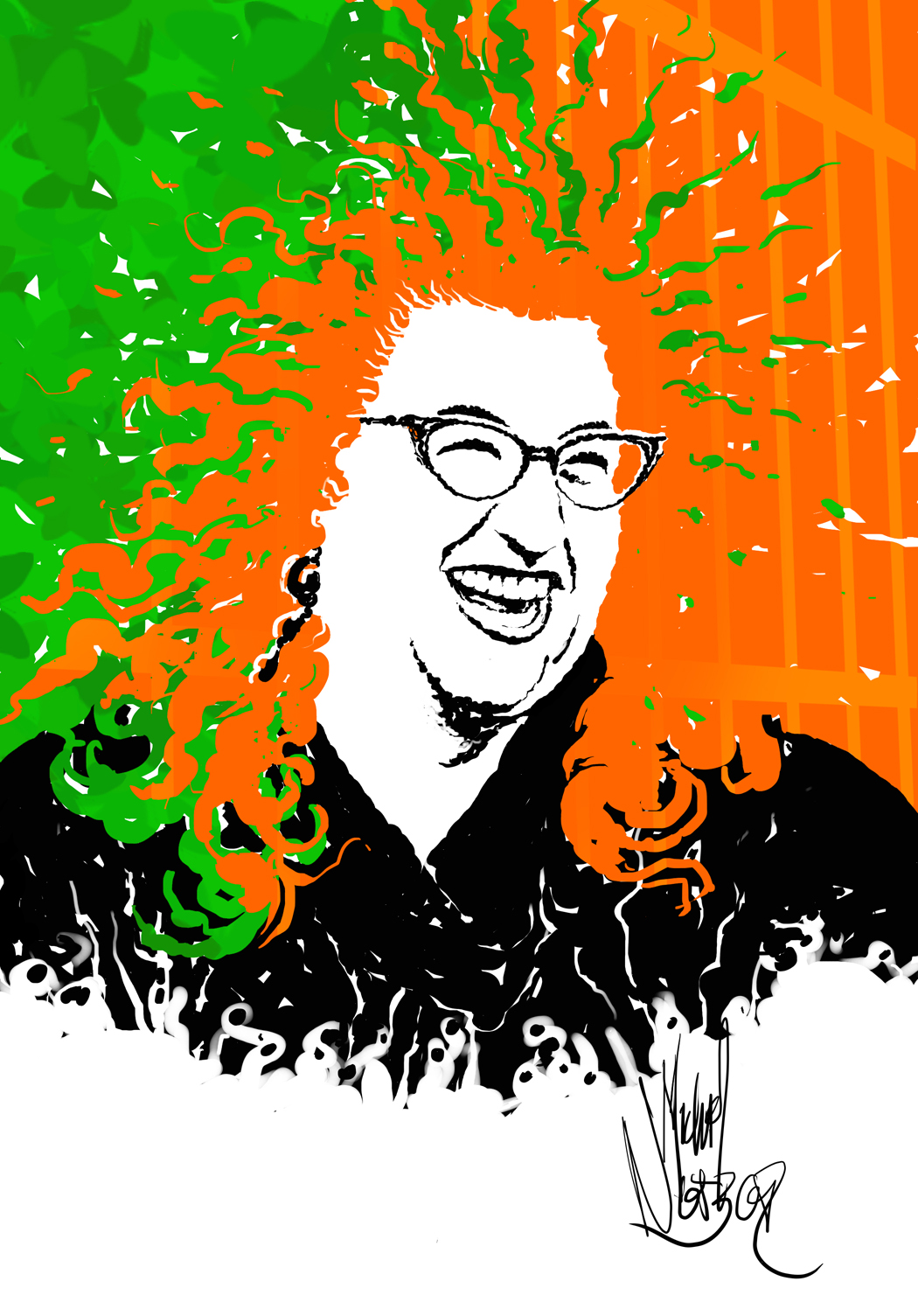 Portrait of American television writer, producer and director Jenji Kohan by Michael Netzer for Portraits of the Creators Sketchbook.